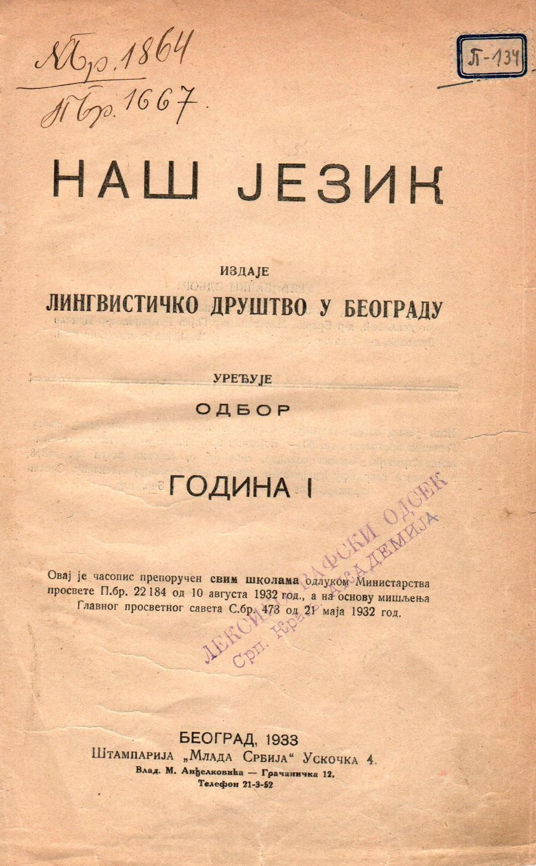 Cover of Serbian scientific journal Naš jezik, 1933.